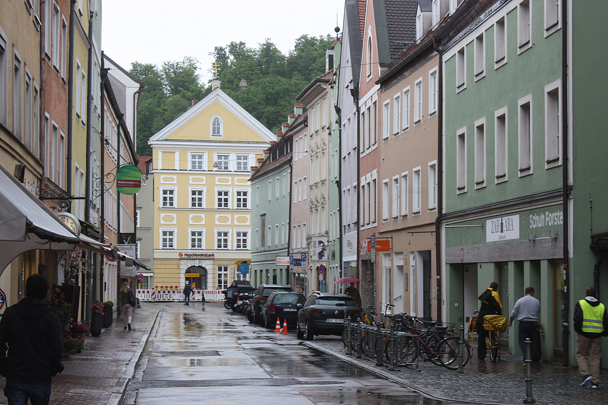 Landshut, the Grasgasse